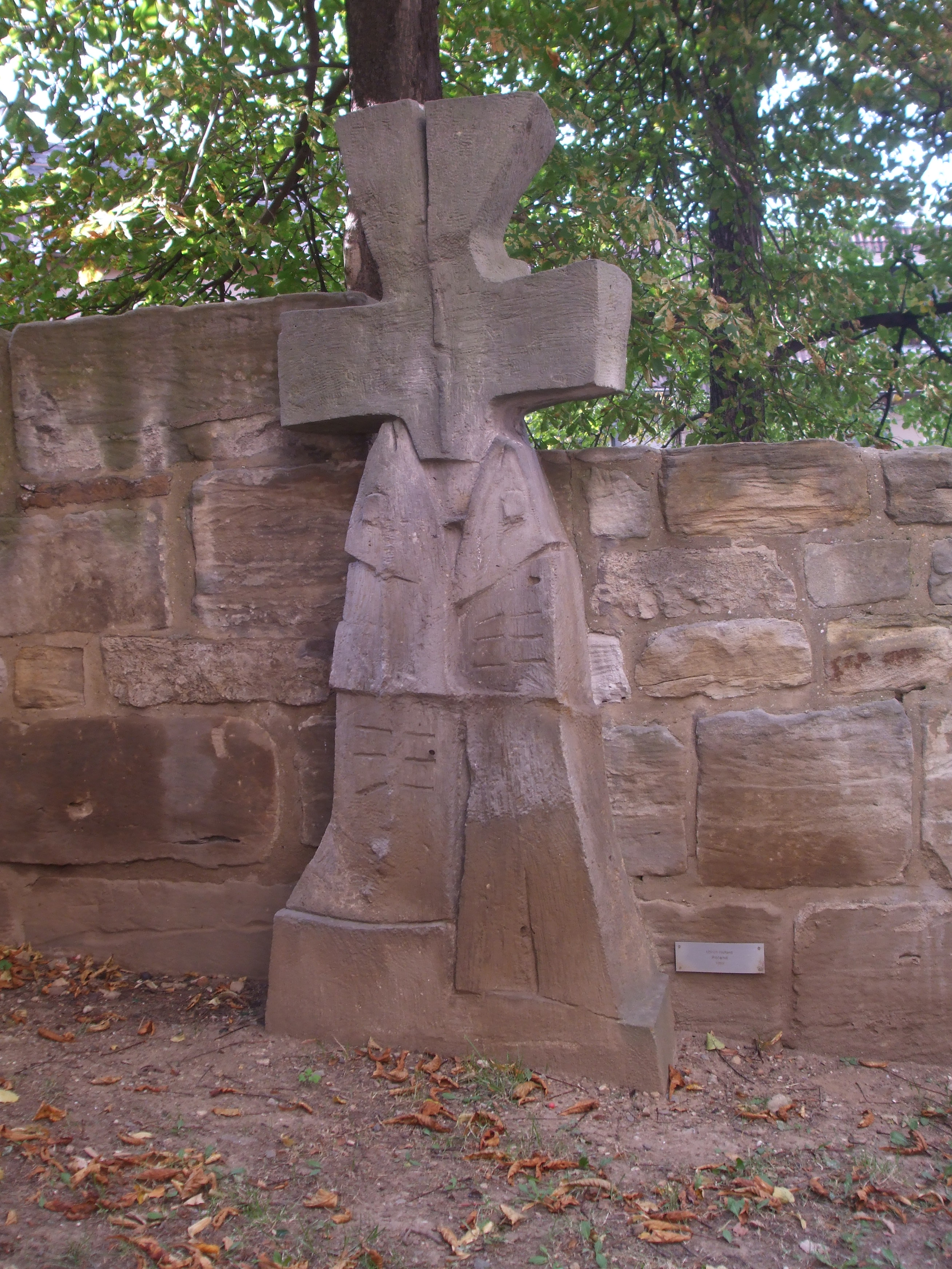 Sculpture Roland (1989) by Ullrich Holland, Nicolaiberg/Webergasse, Gera, Germany